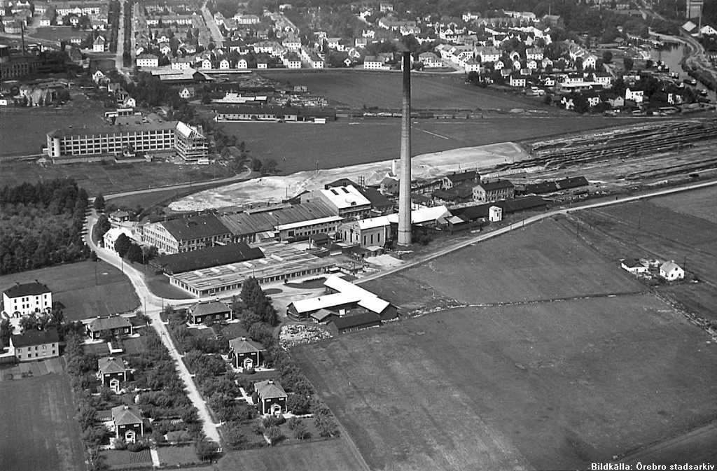 Örebro paper mill